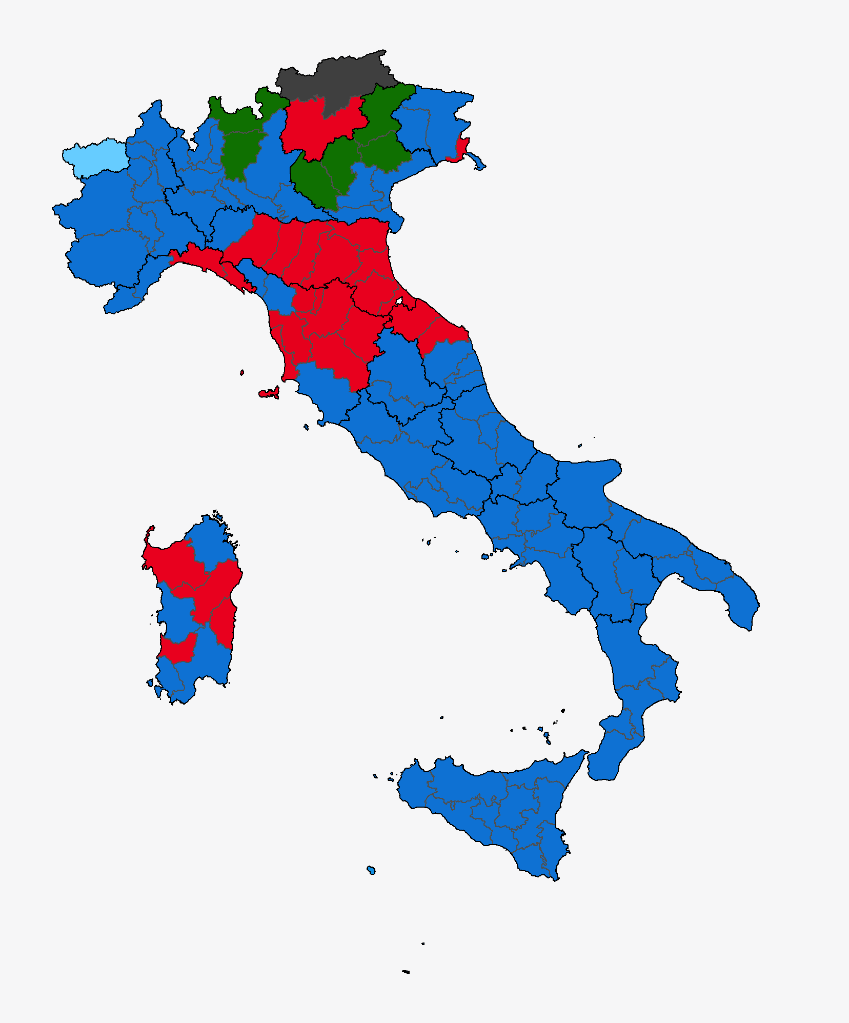 Europe